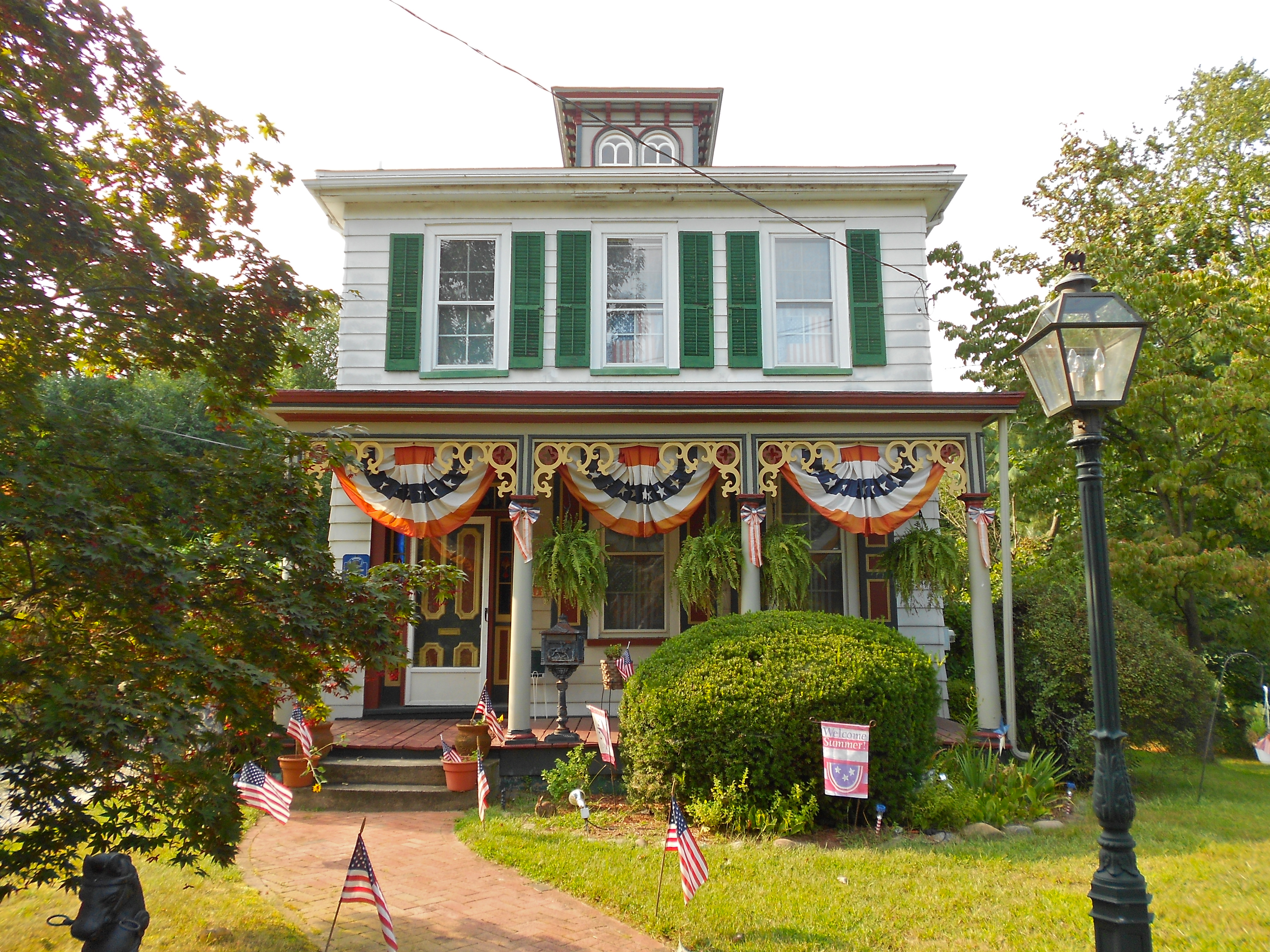 Berlin Historic District